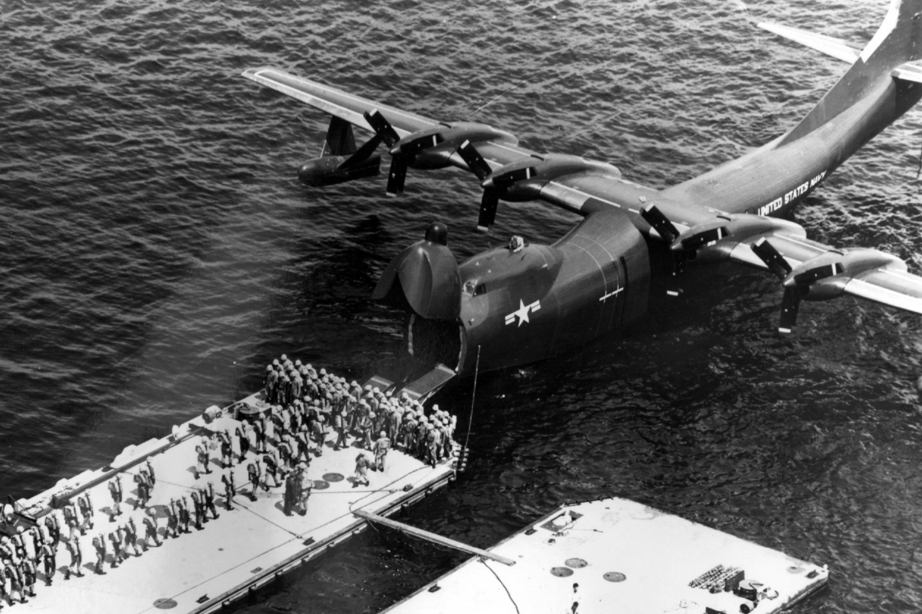 Fully-equipped U.S. Marines stand on a dock ready to climb aboard Convair R3Y-2 Tradewind during a loading test of the troop-carrying capacity of the aircraft.